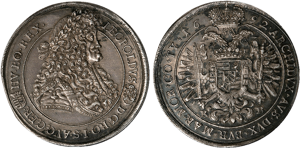 Thaler minted in Kremnitz, Hungary depicting Emperor Leopold I. Interestingly, despite Leopold's portrait and titles being on the coinage of Hungary until his death in 1705, his son Joseph had been crowned King of Hungary in 1687. Inscription: Obv: LEOPOLDVS D[EI] G[RATIA] RO[MANORUM] I[MPERATOR] S[EMPER] A[VGVSTVS] GER[MANIÆ] HV[NGARIÆ] BO[HEMIÆQVE] REX "Leopold, by the grace of God, Emperor of the Romans, Ever August, King of Germany, Hungary, and Bohemia" Rev: ARCHIDVX AVS[TRIÆ] DVX BVR[GVNDIÆ] MAR[CHIO] MOR[AVIÆ] CO[MES] TY[ROLIS] 1692 "Archduke of Austria, Duke of Burgundy, Margrave of Moravia, Count of Tyrol 1692"